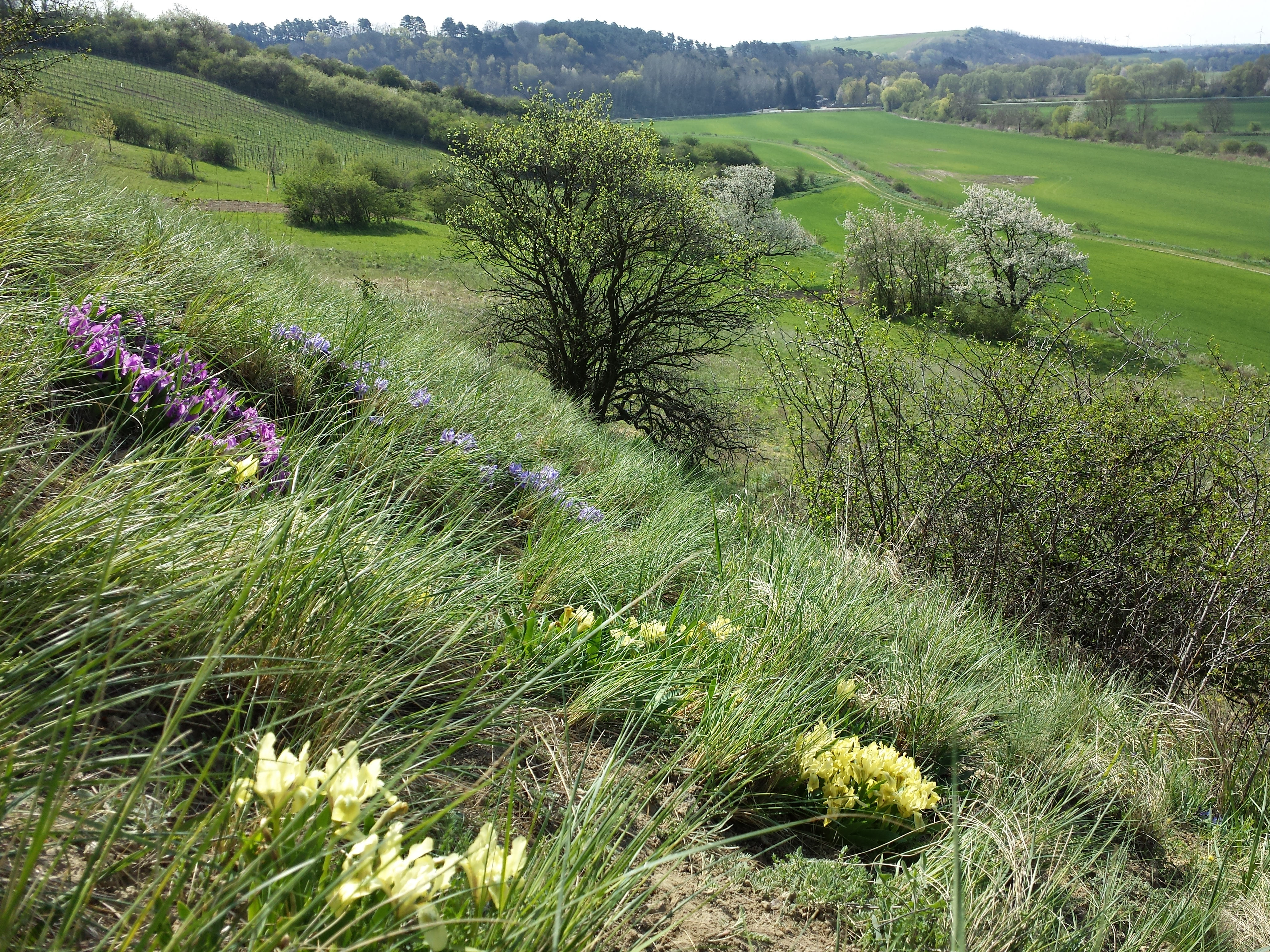 Habitat Taxonym: Iris pumila ss Fischer et al. EfÖLS 2008 ISBN 978-3-85474-187-9 Location: Haulesbergen, district Mistelbach, Lower Austria - ca. 200 m a.s.l. Habitat: dry grassland